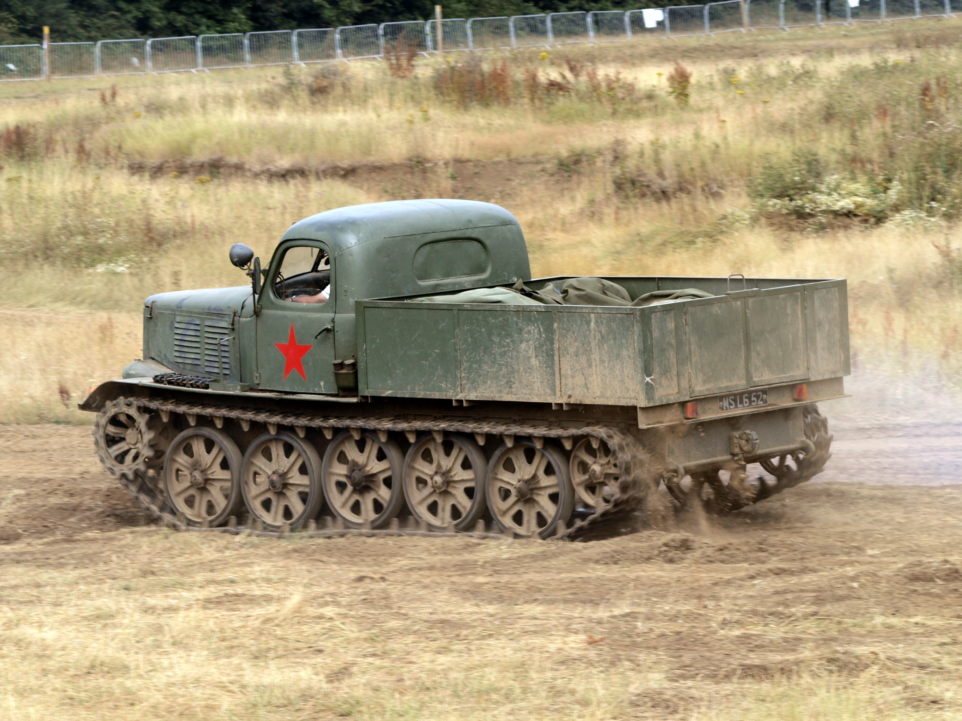 ATLM Gun Tracktor